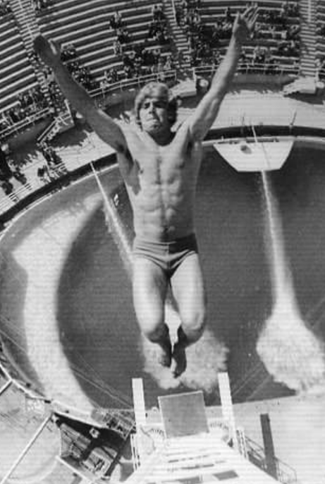 Guinness World Record Certificate High Dive 1983